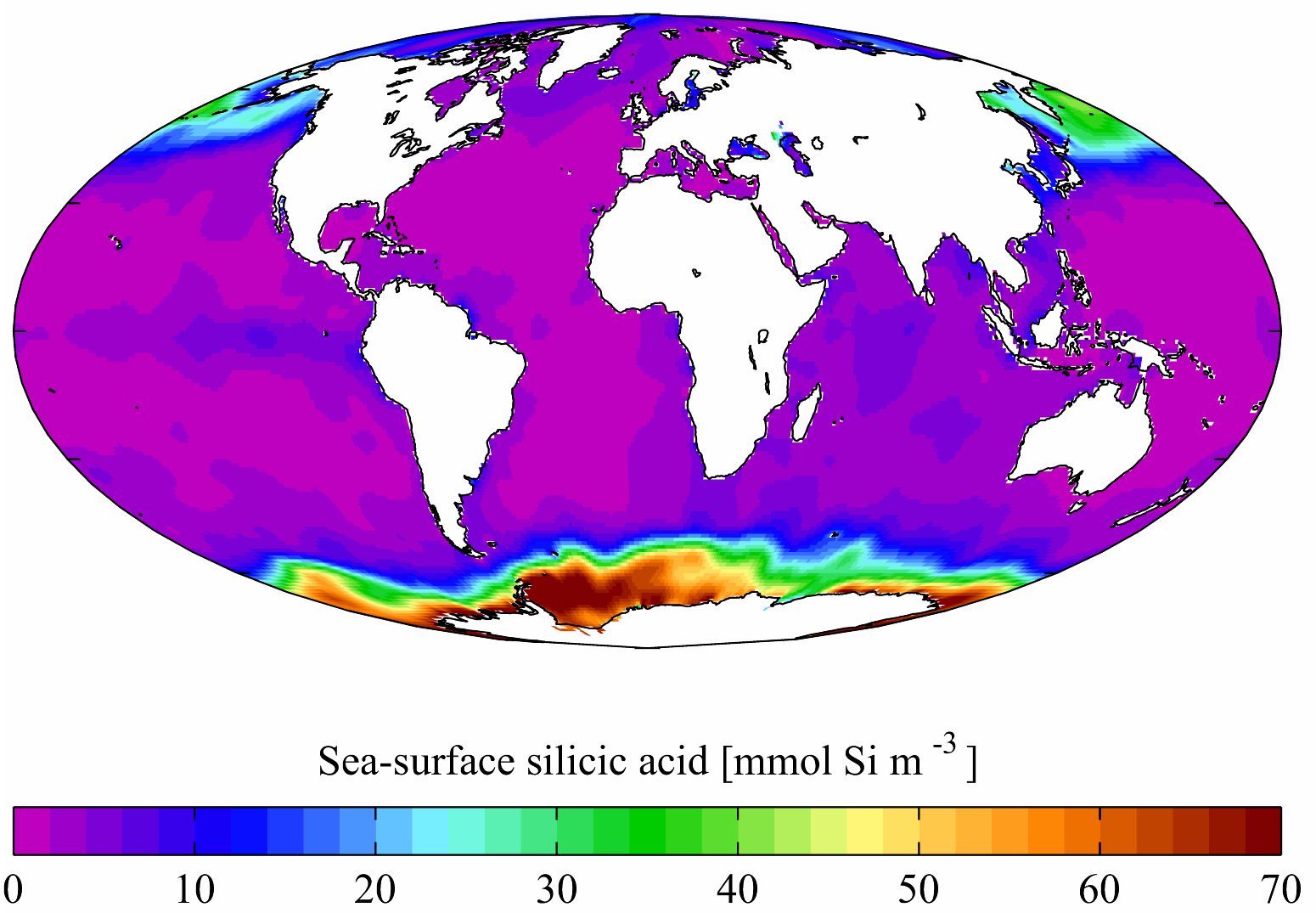 Annual mean sea surface silicic acid from the World Ocean Atlas 2001. It is plotted here using a Mollweide projection (using MATLAB and the M_Map package).